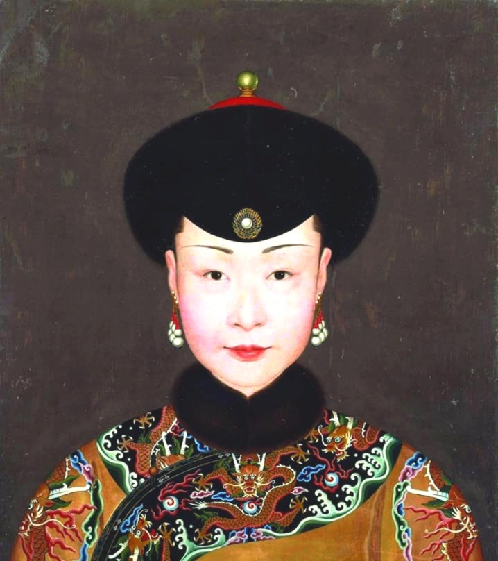 Empress Ulanara, the Step Empress of Emperor Qian-long